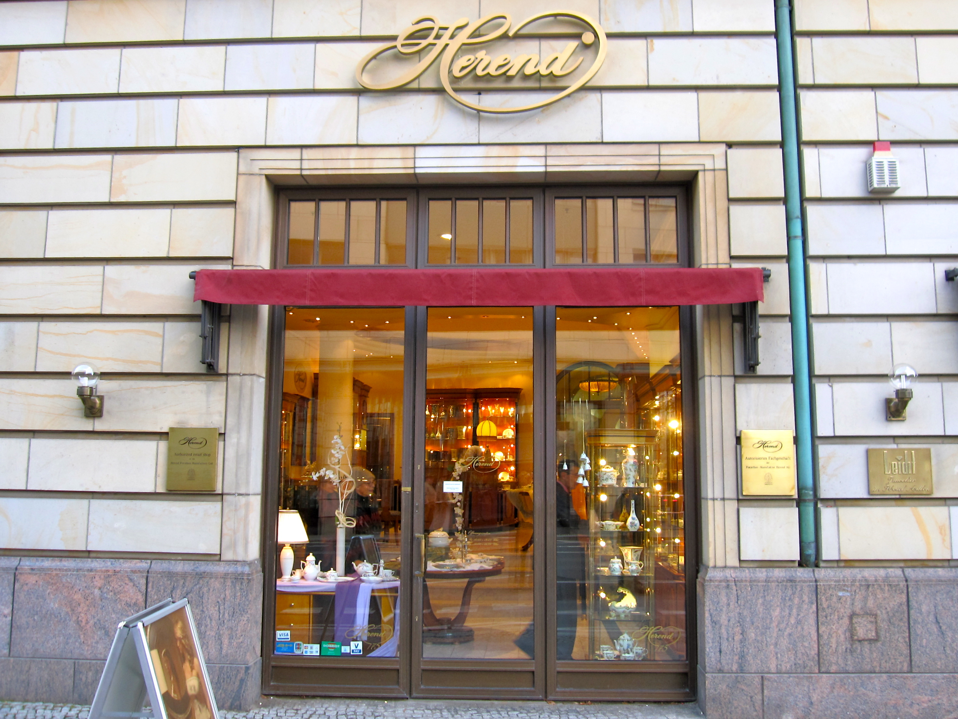 Herend porcelain shop in the Hotel Adlon in Berlin.